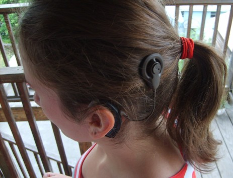 Left ear cochlear implant as worn by user